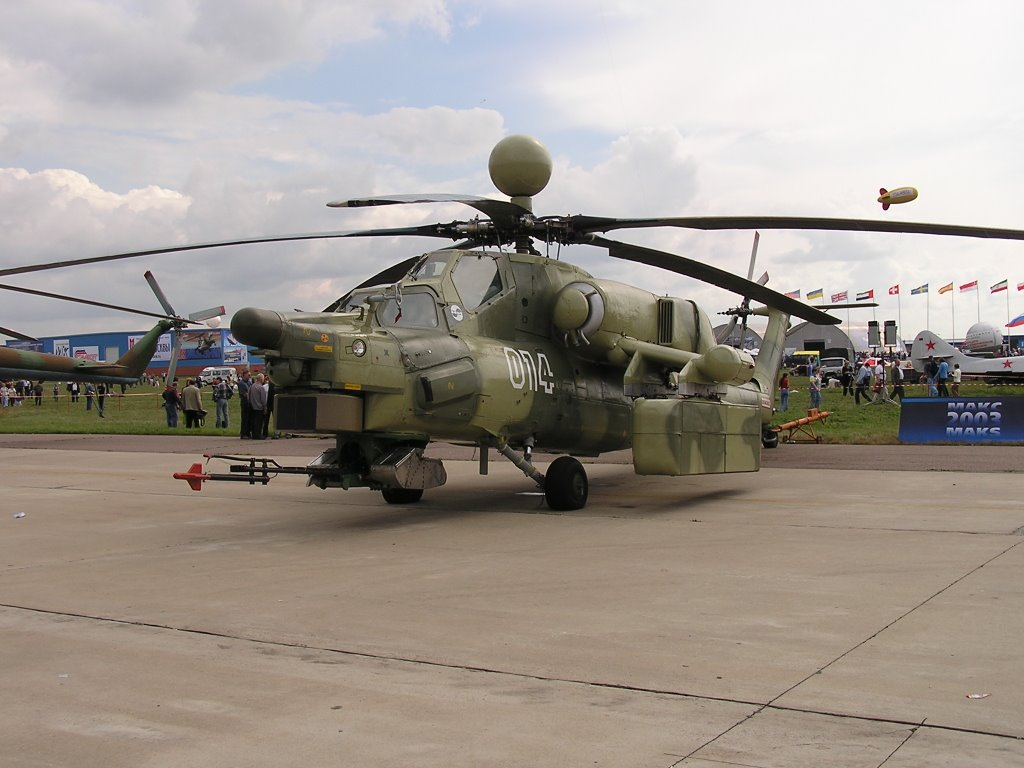 A Mil Mi-28 helicopter at the MAKS Airshow 2003.